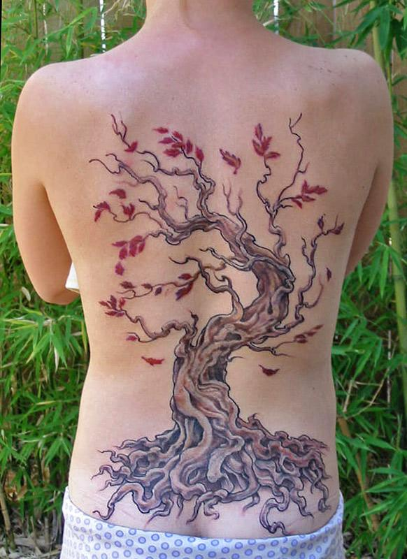 Tattoo done by me, my copyright. Custom artwork designed by me. Photo subject release on file, but not necessary for fair use in US, since subject is not identifiable. You may use this for anything, but please don't get the same exact tattoo! The original wearer would be very sad.